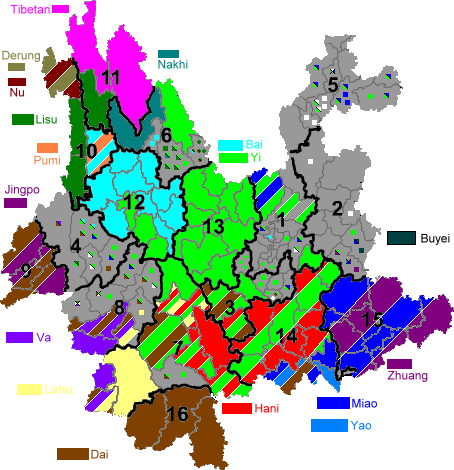 Autonomies in Yunnan